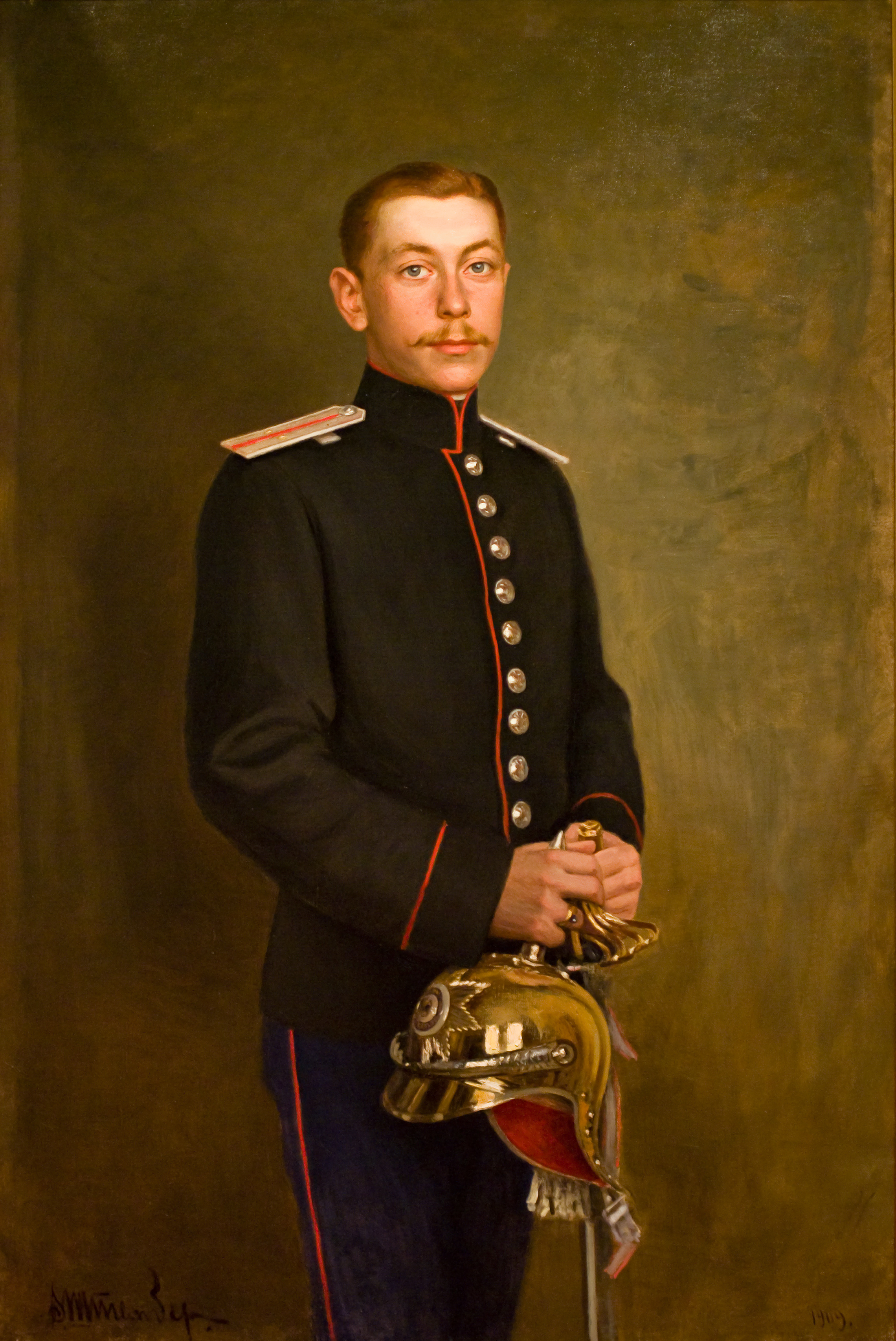 Viktor Schtemberg Portrait of Count Dimitry Sheremetev Cornet of Cavalier Guard Regiment 1909